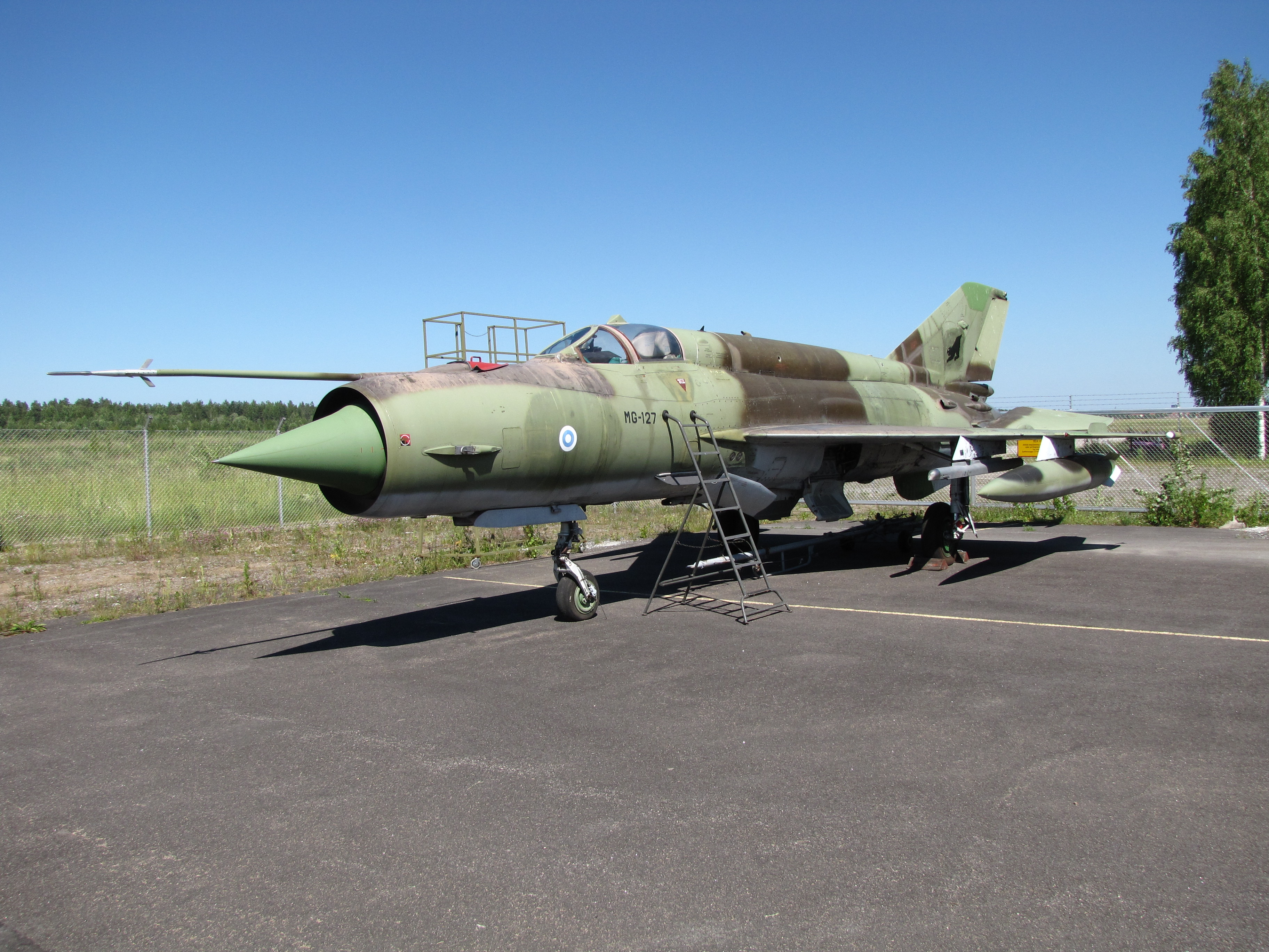 MiG-21 bis MG-127. Lynx in the tail fin is symbol Fighter Squadron 31.